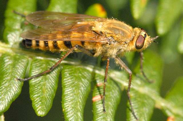 Cliorismia ardea from Commanster, Belgian High Ardennes .